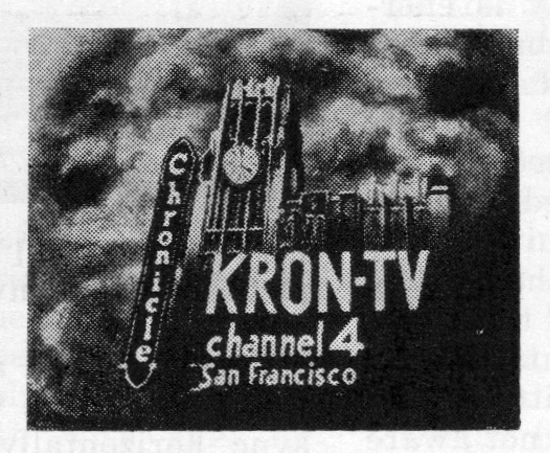 KRON-TV's first logo, depicting its initial association with the San Francisco Chronicle.